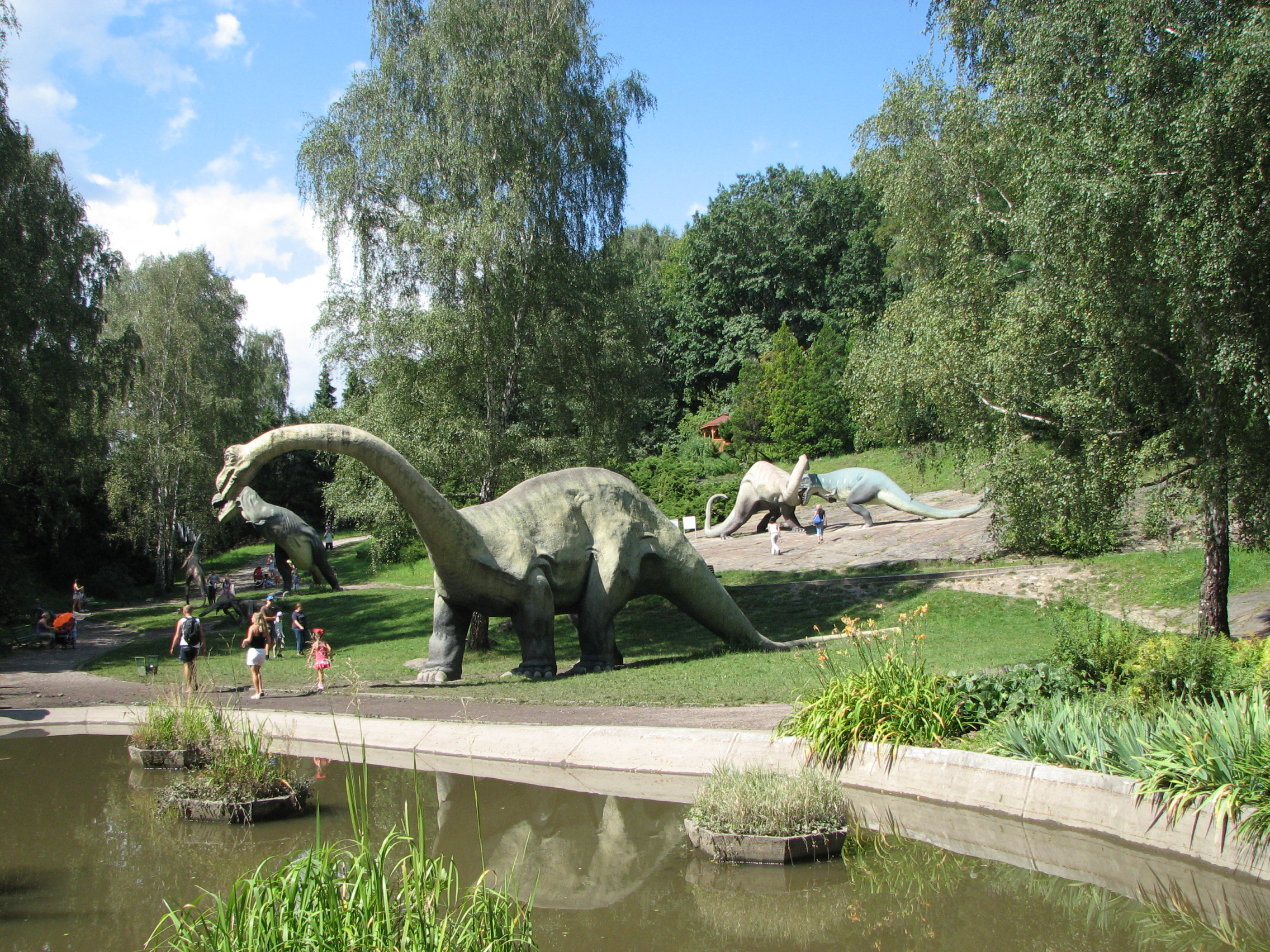 Silesian Zoological Garden, Chorzów, Poland